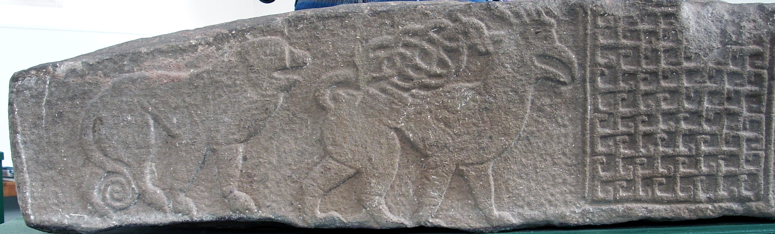 Detail of Meigle 26 Pictish stone at Meigle Sculptured Stone Museum.